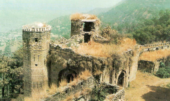 Ruins of Baghsar fort.